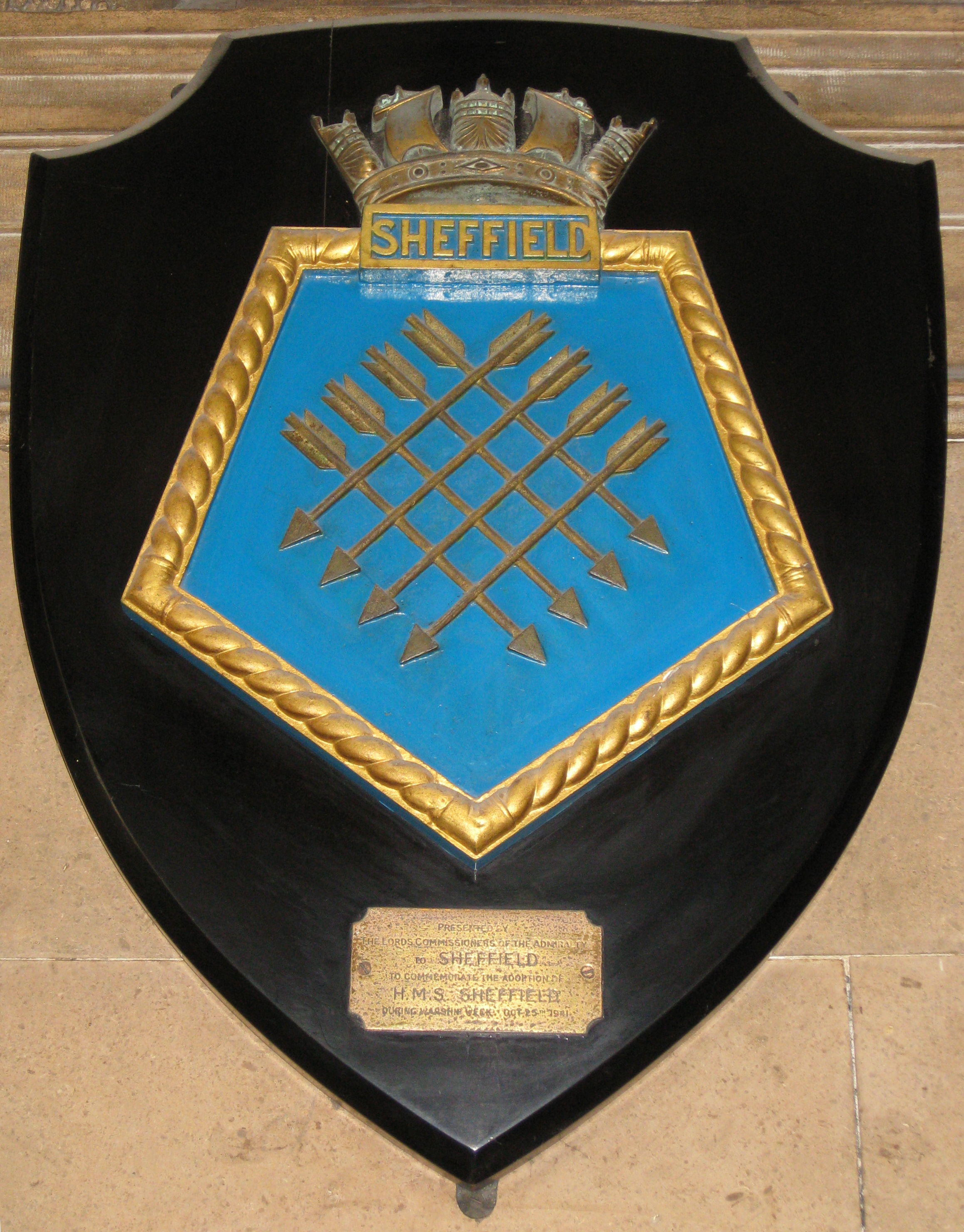 Plaque of HMS Sheffield in the entrance to Sheffield Town Hall, dated 1941.